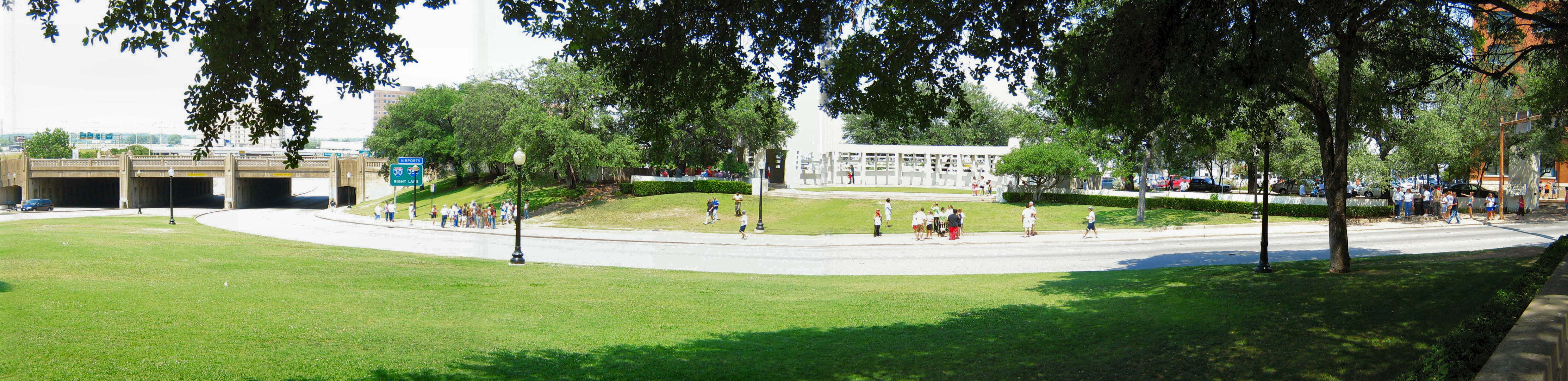 Main and Elm Streets of Dallas, Texas as of June 10th, 2006 (Elm is at the right). The white concrete pergola where Abraham Zapruder filmed the assassination is at the far right of the scene, with the Grassy Knoll to the left of it. JFK was struck by the final bullet at a position just to the photo-left of the lamp-post in front of the pergola. The "triple underpass" is in the photo center. Original picture taken by Nathan Stringer. Imported in Commons from Slightly cropped compared with Image:Dallas Elm Street.jpg. File:Dallas Elm Street Zapruder.jpg is a further crop of this image.